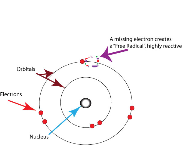 A free oxygen radical is an oxygen atom that, having lost an electron, becomes extremely reactive